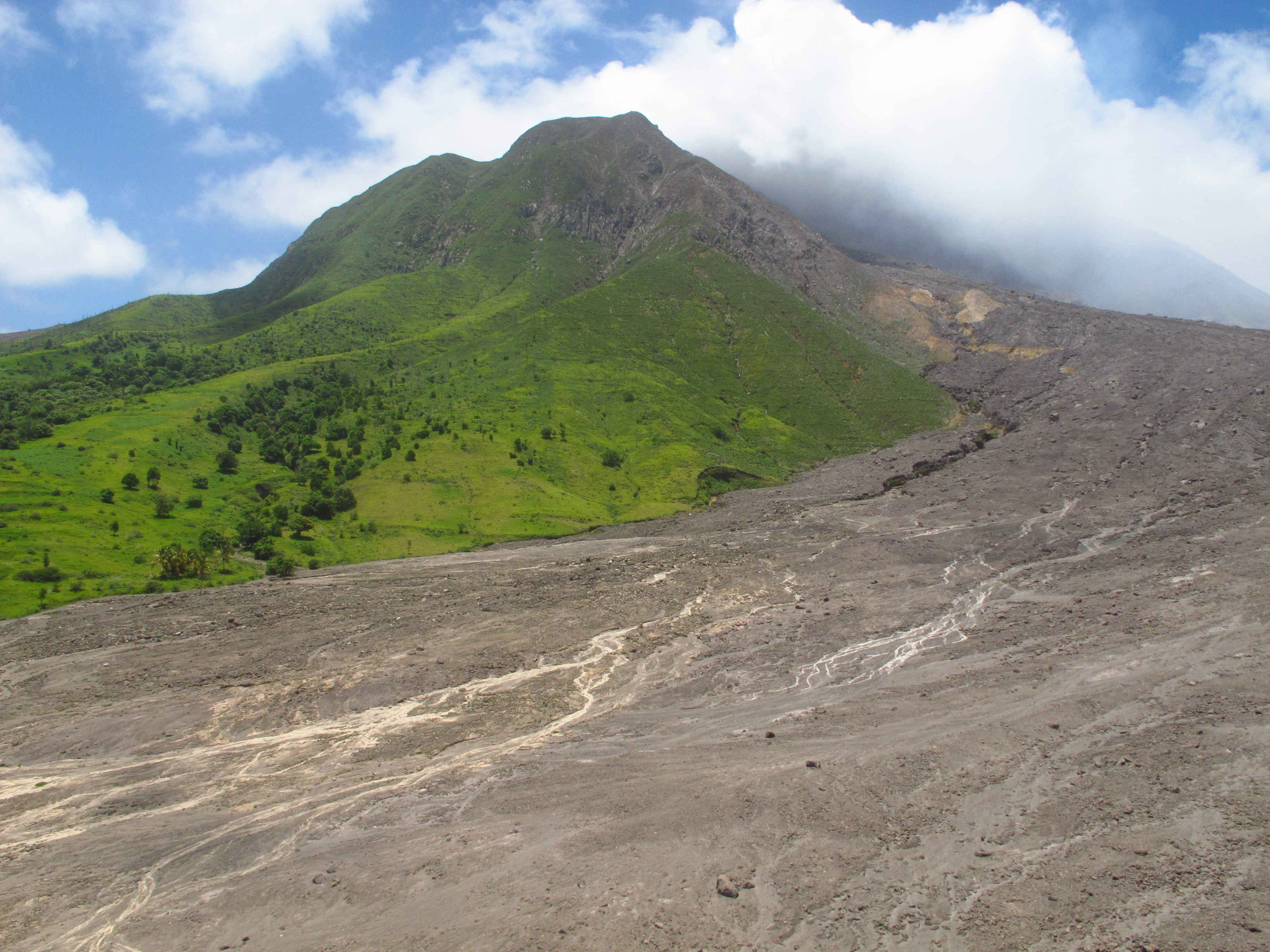 Looking up towards the Soufrière Hills volcano, with pyroclastic flows in foreground and green growth in background.